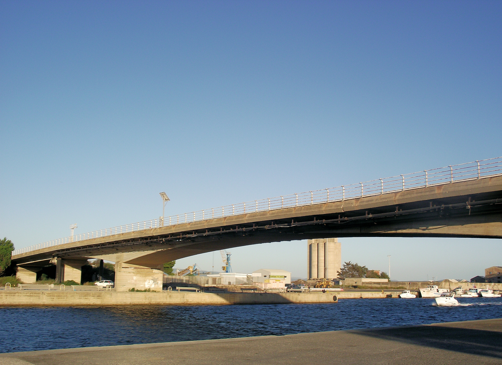 The road bridge that joins the island of Sant'Antioco with Sardinia.